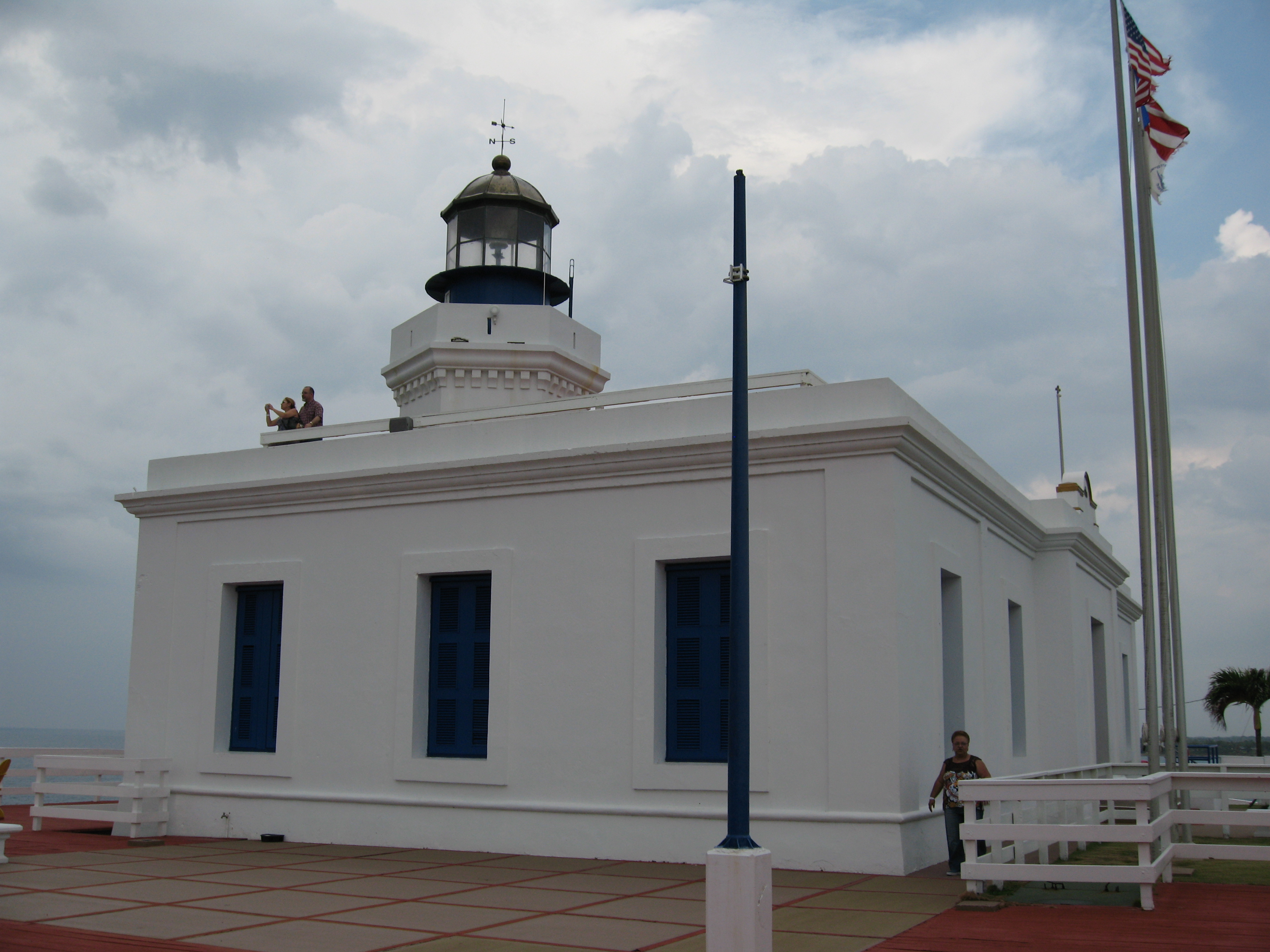 Punta Los Morrillos Lighthouse, Arecibo, Puerto Rico